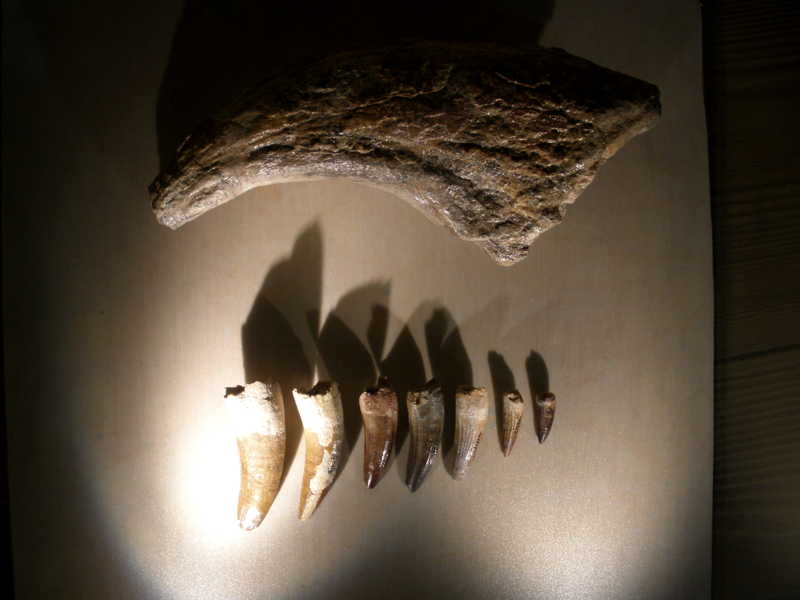 Took the photo at Museo di Storia Naturale di Venezia